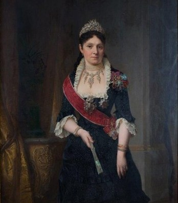 Portrait of Julia Hauke (1825-1895)